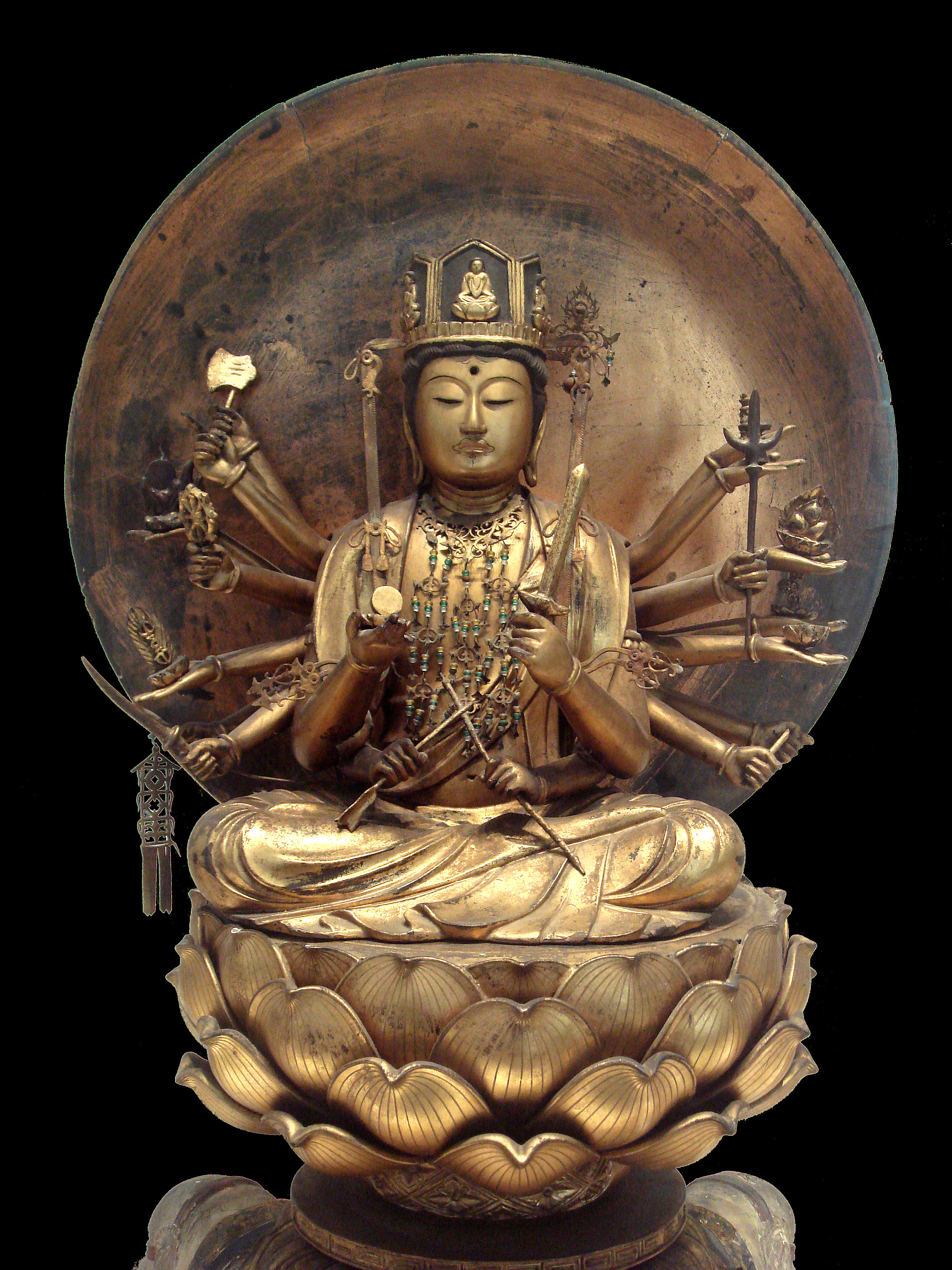 Fugen_the_life_preserver.